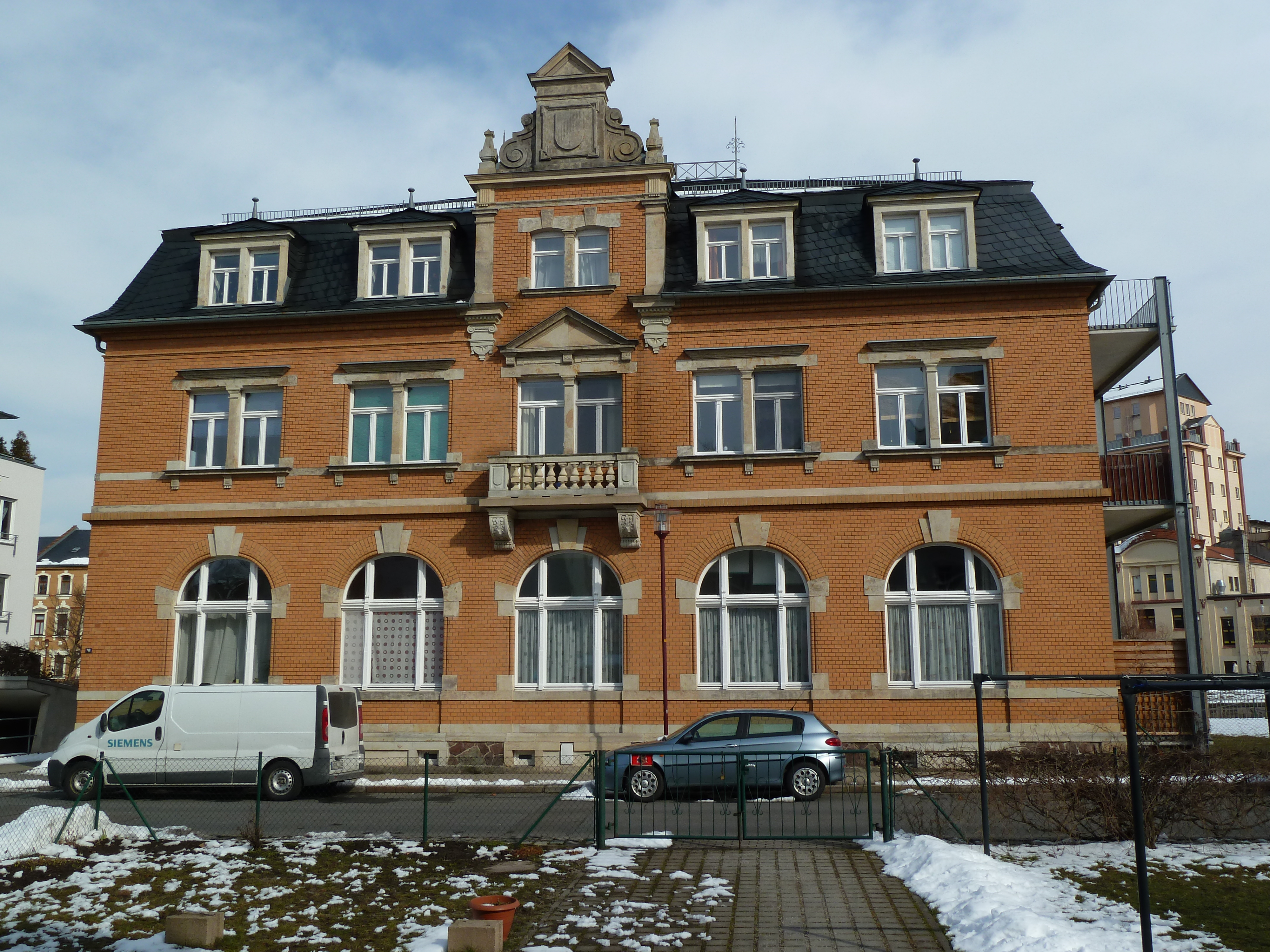 First public bath with indoor pool in Deuben (Freital).